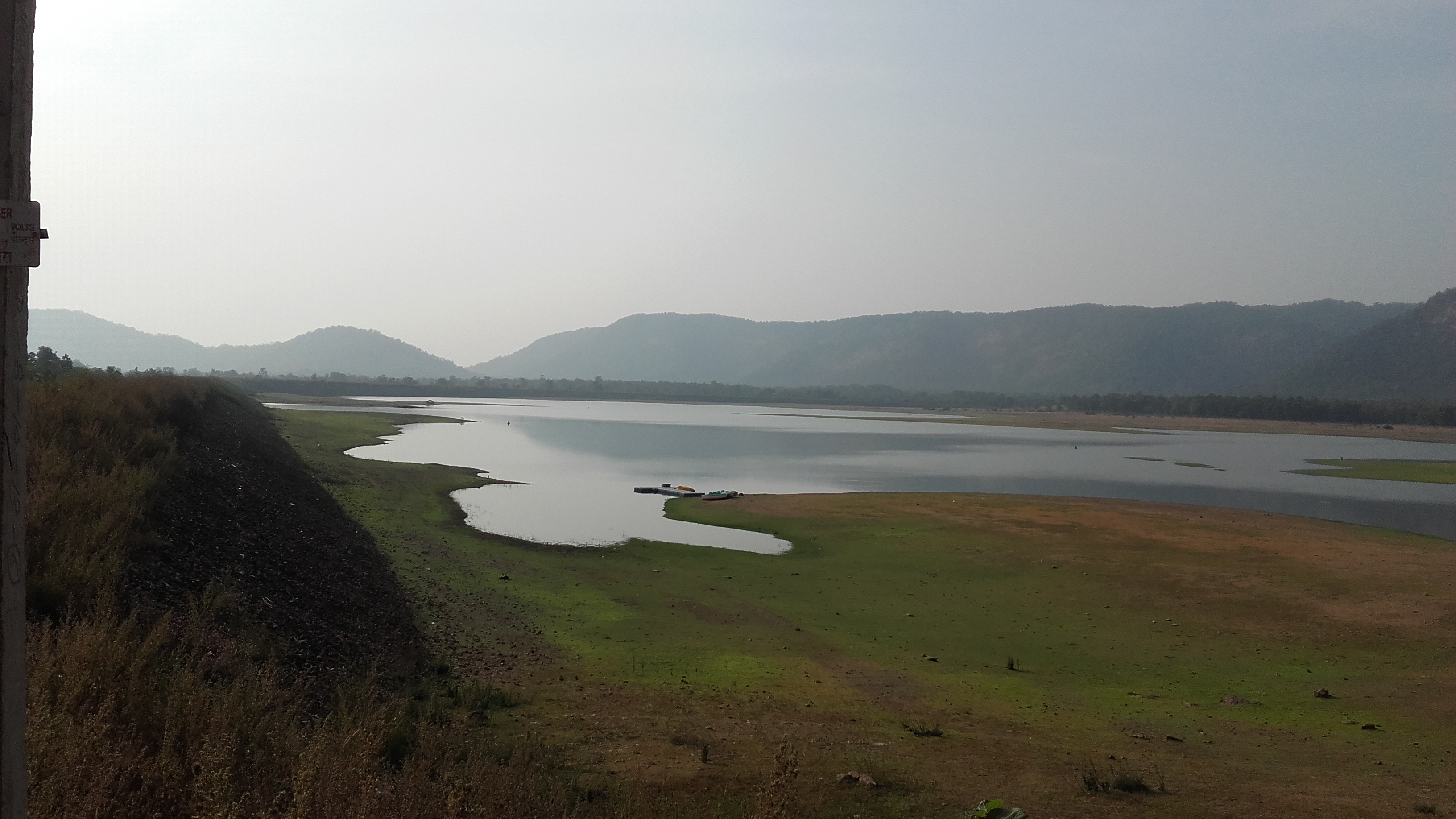 scenery